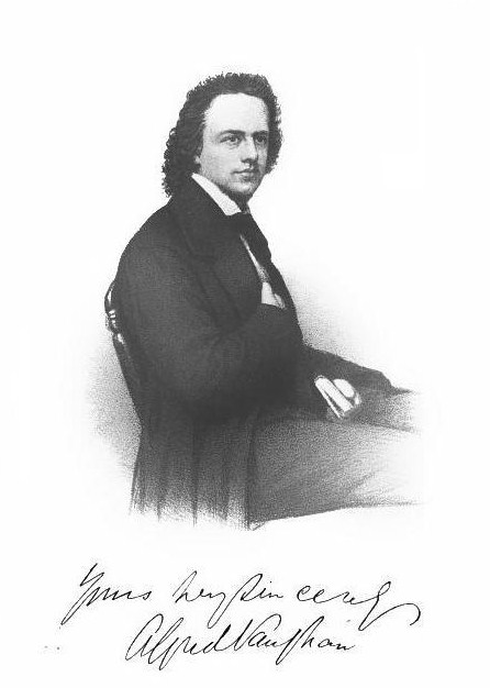 Portrait of Robert Alfred Vaughan (1823–1857), English Congregationalist minister and author.